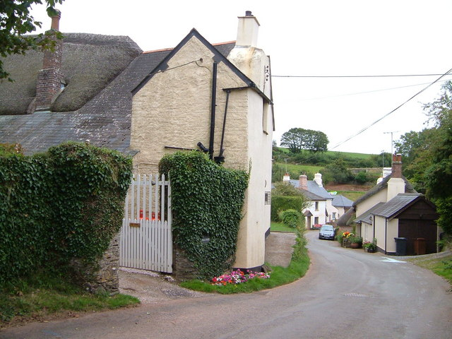 Sherford. A small village on a twisting lane in the South Hams.